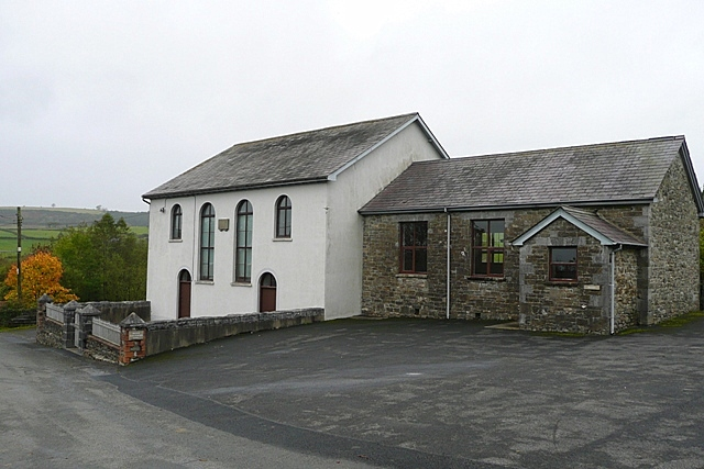 Capel Isaac, near to Capel Isaac, Carmarthenshire/Sir Gaerfyrddin, Great Britain. The largest community for many miles, has a chapel and a community building.